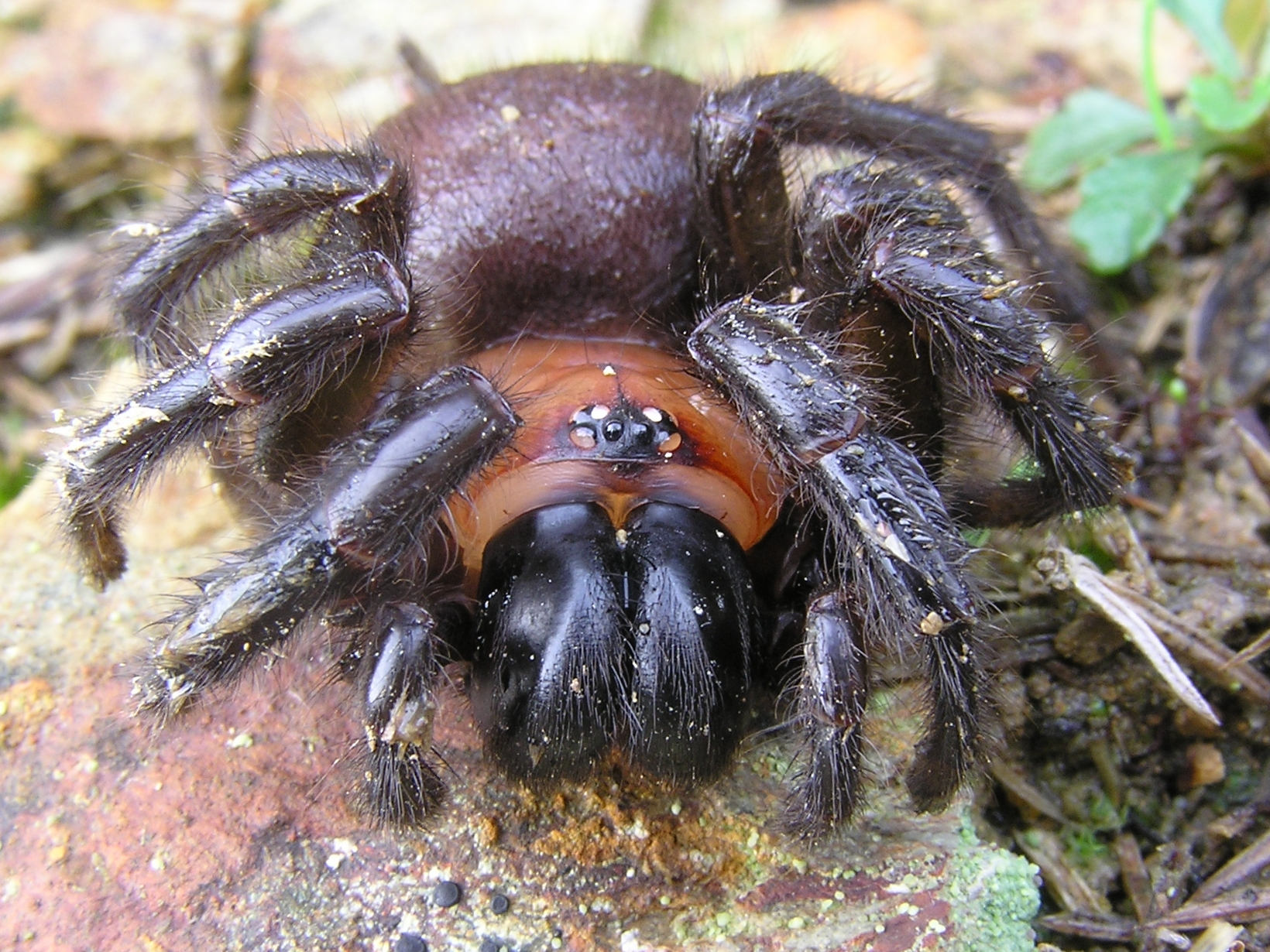 Black Tunnelweb spider emphasising head detail - 8 eyes and palps (Porrhothele antipodiana), Wellington, New Zealand. (recently killed, hence bunched up legs and smattering of mud).